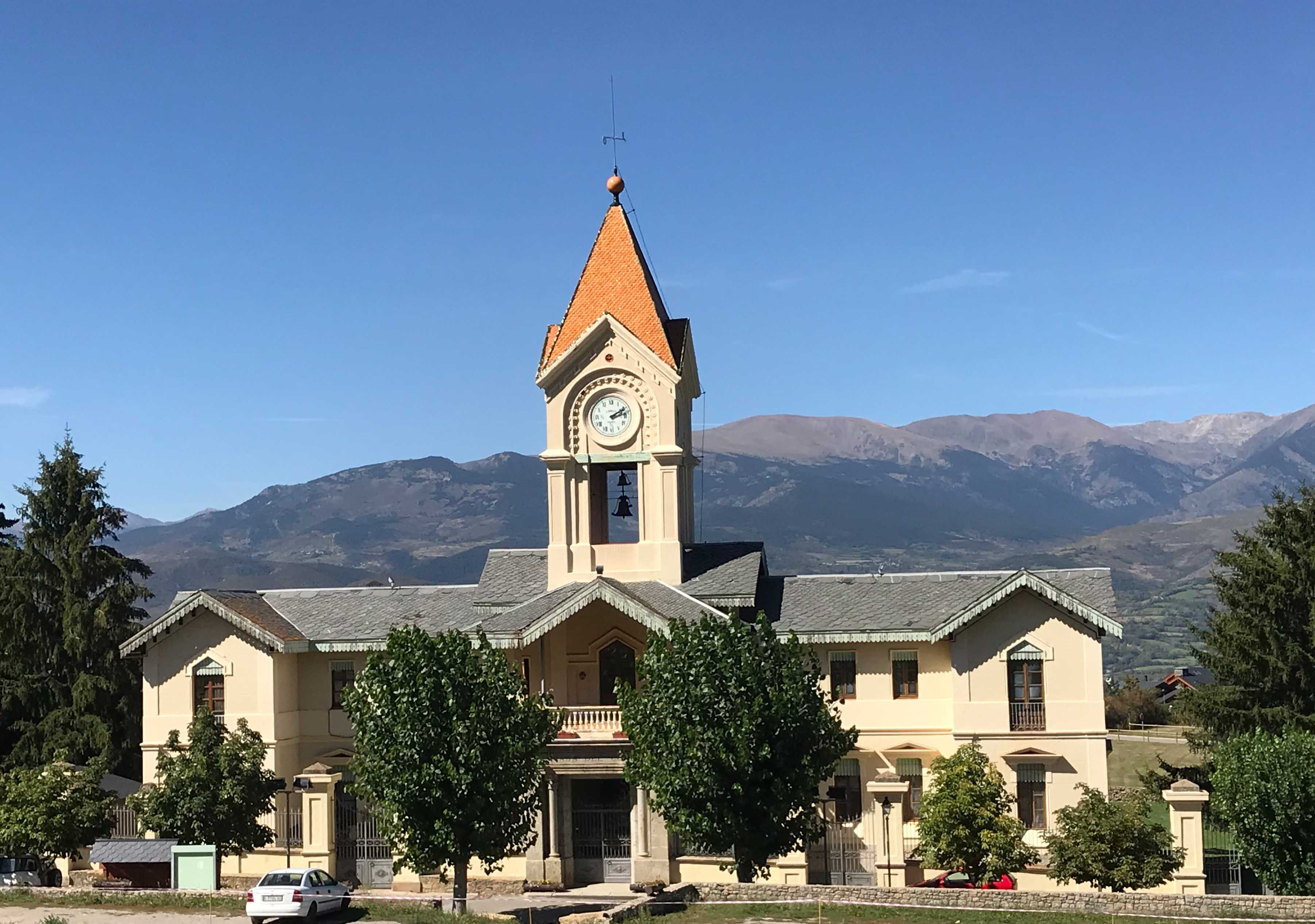 Municipality building in Das, La Cerdanya, Catalonia